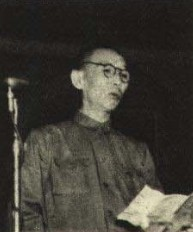 唐生智，1950年，全国政协第一次代表大会